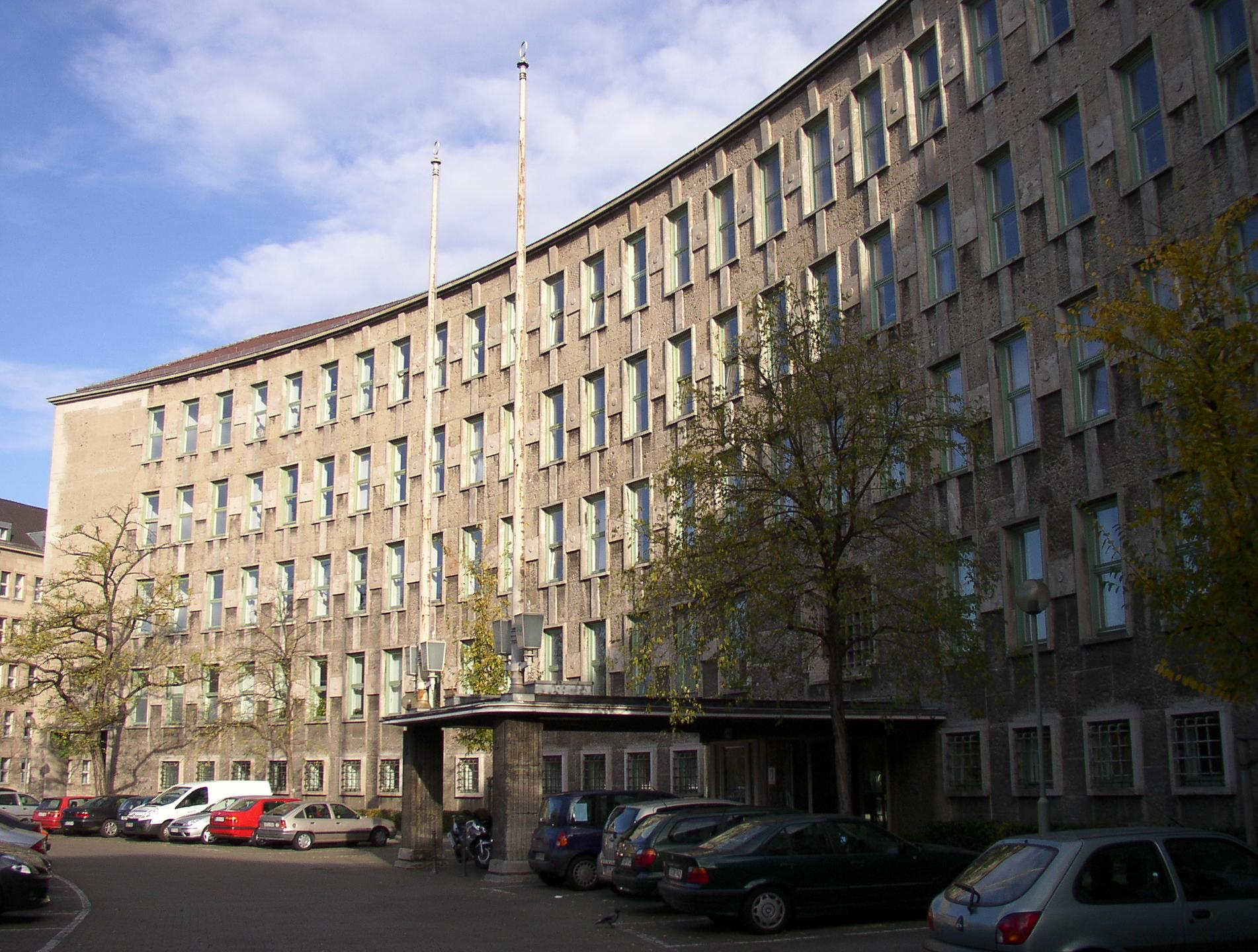 Building in Berlin-Wilmersdorf, Germany